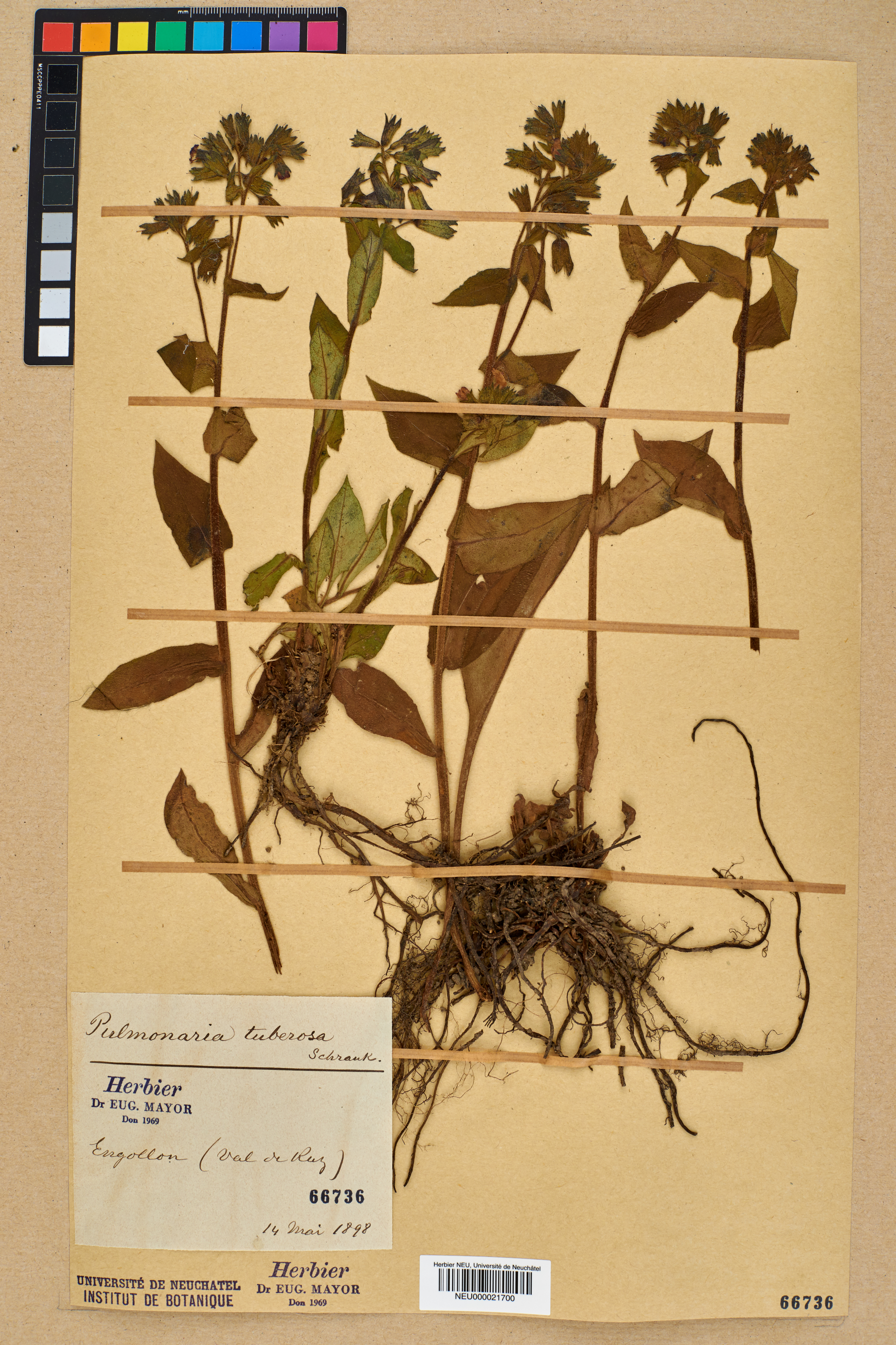 Dried pressed specimen of Pulmonaria montana